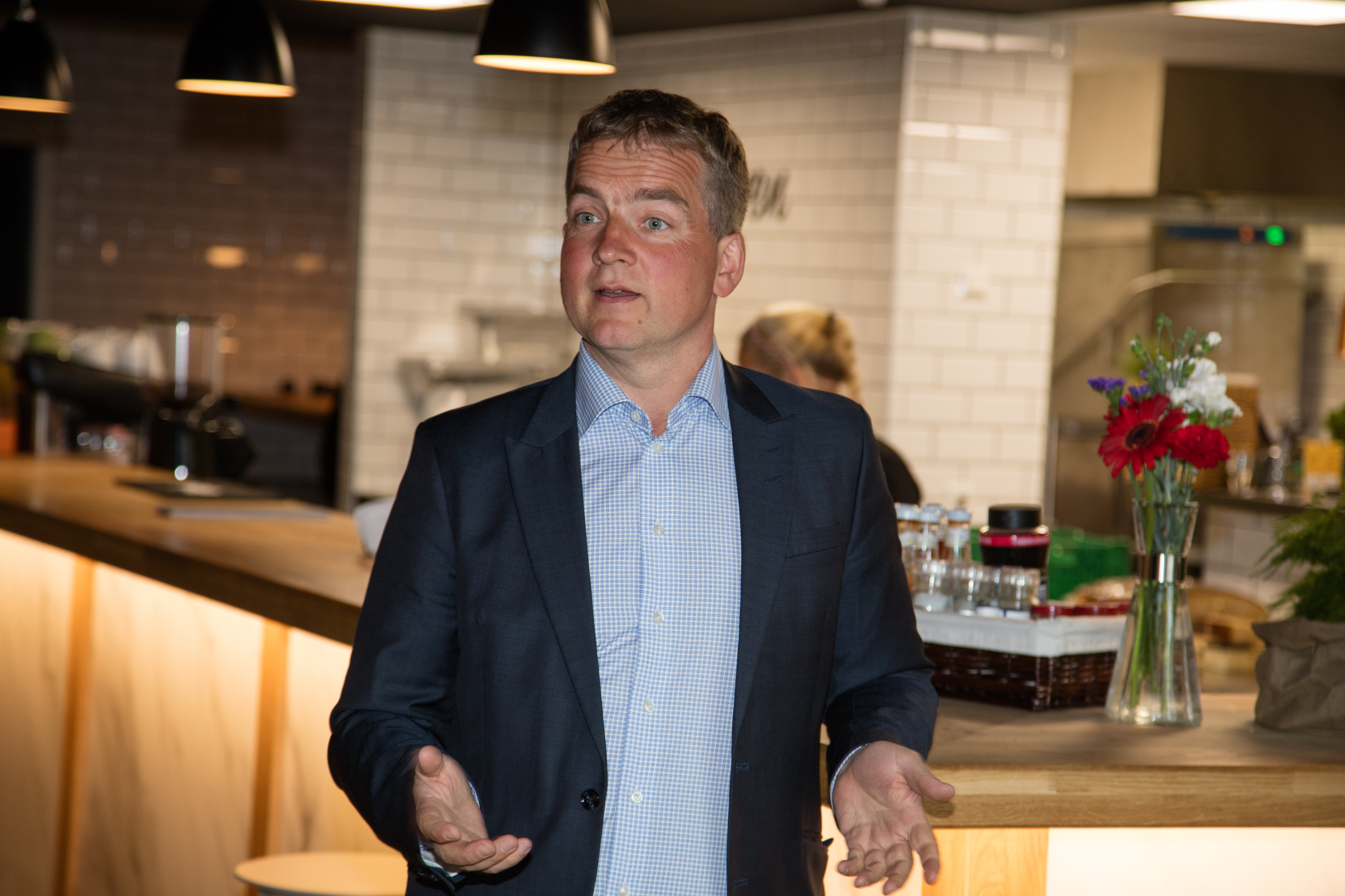 Sveinung Stensland giving a workshop on Political programme for Haugesund Høyre. In a small café in the city centre of Haugesund.